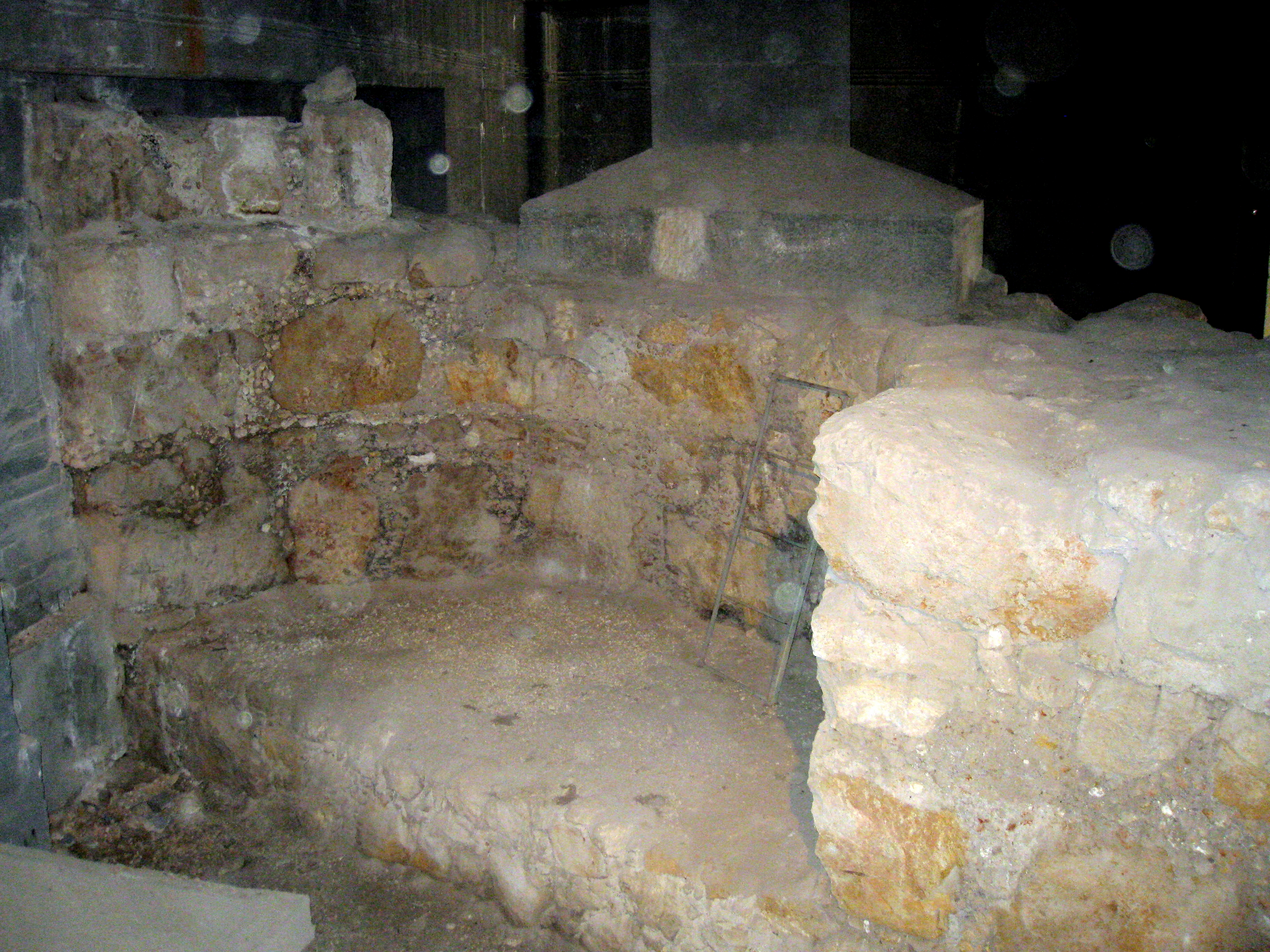 The Nea Church